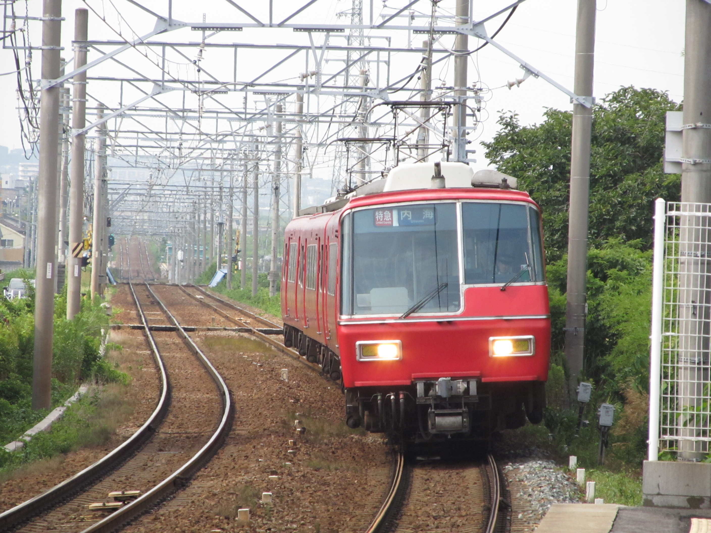 Meitetsu 5700 series. Limited Express bound for Utsumi.